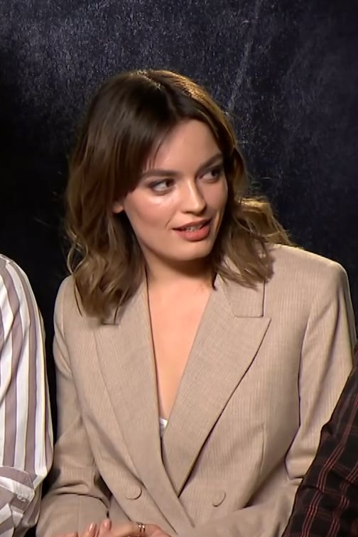 Emma Mackey at an MTV International interview in January 2019